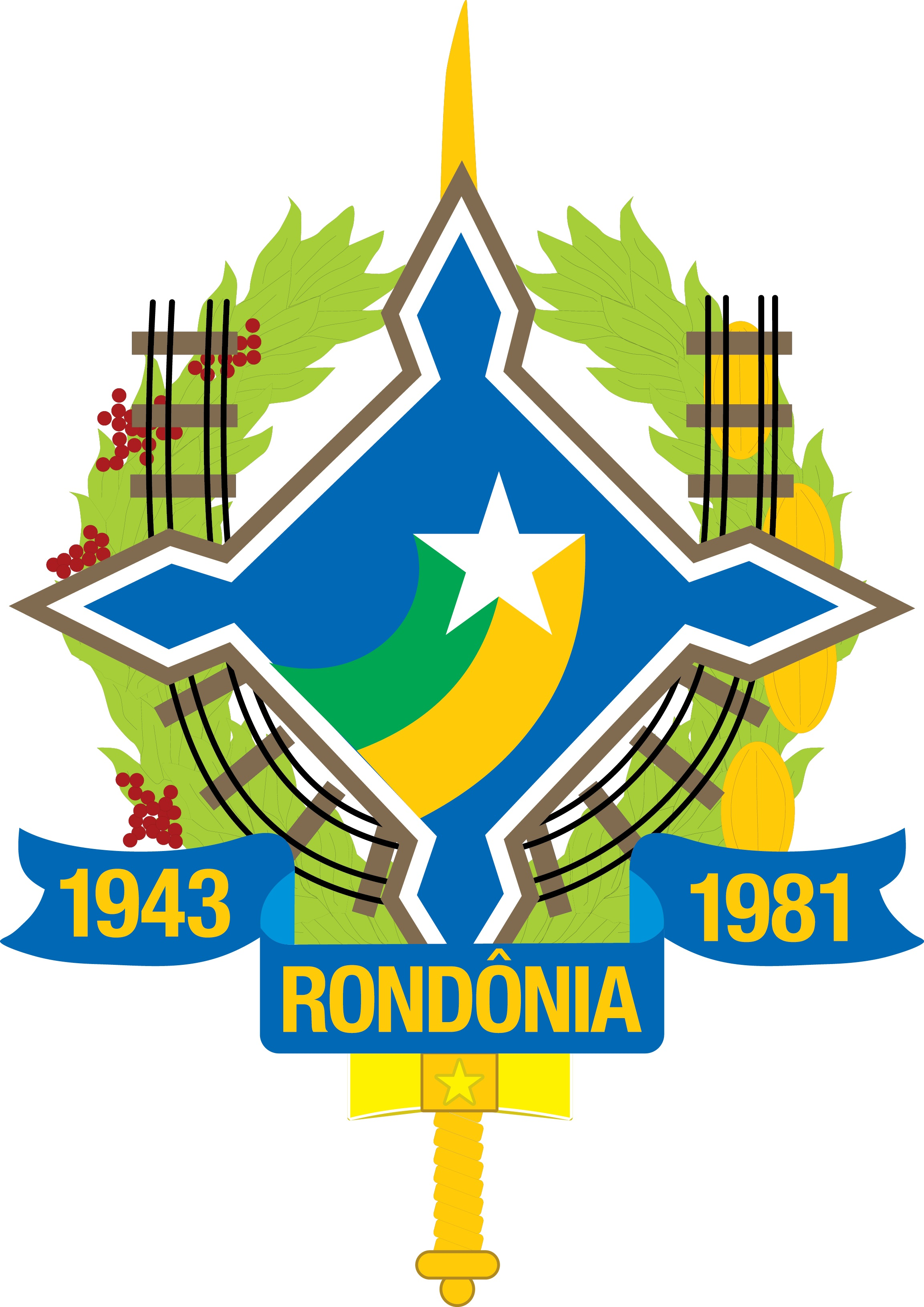 Coat of arms of the state of Rondônia, Brazil.